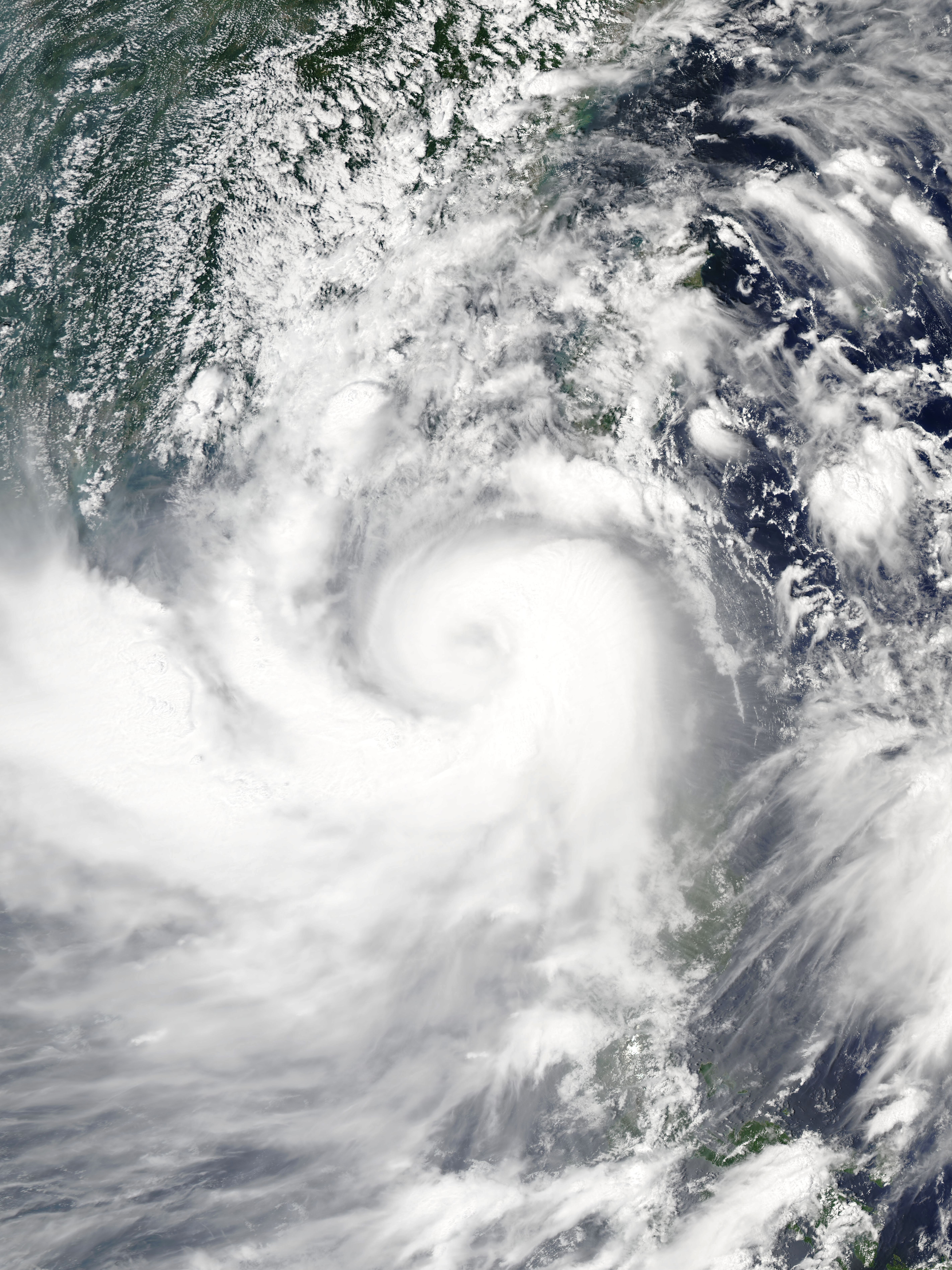 Severe Tropical Storm Hato southwest of Taiwan on August 22, 2017.